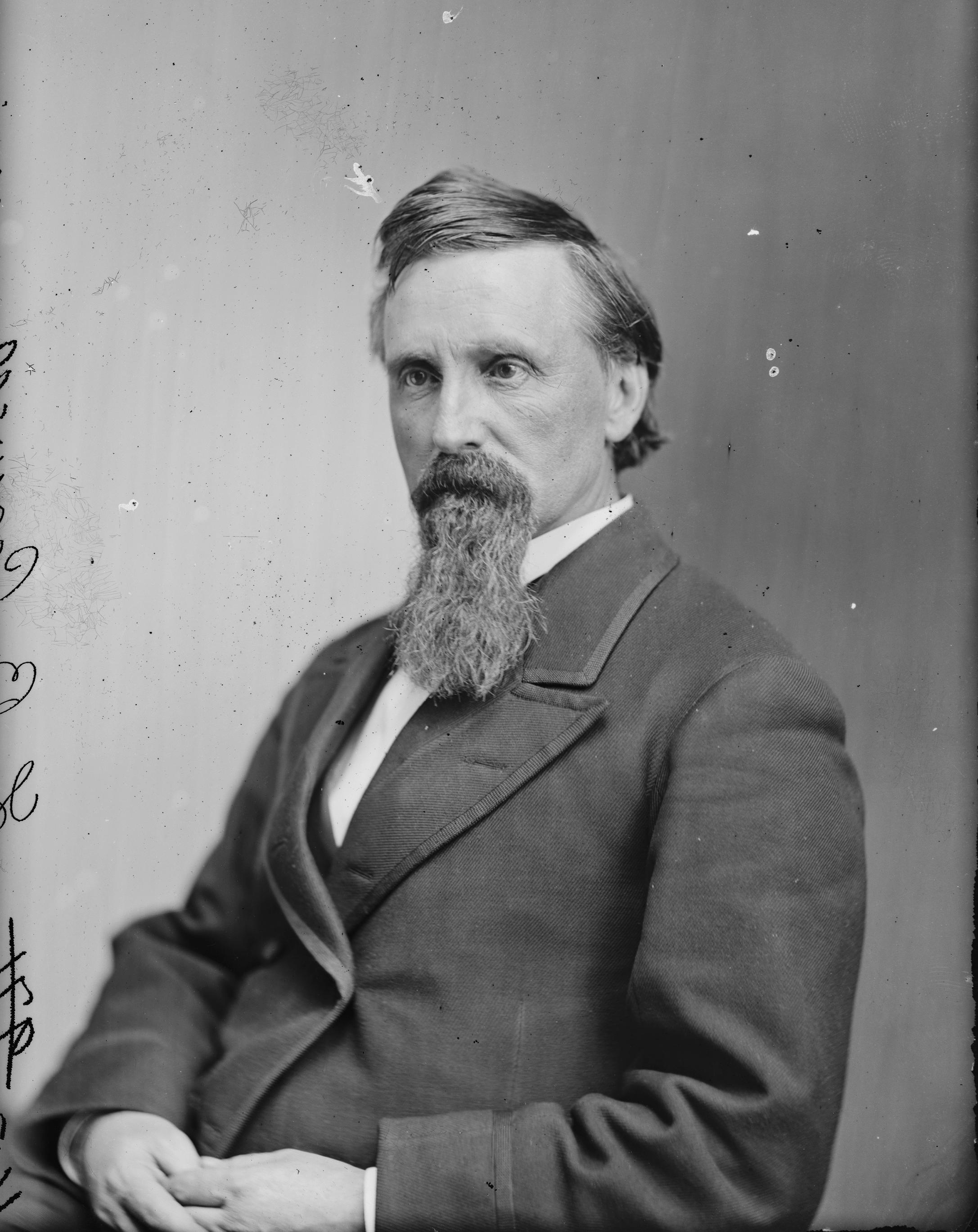 Lucien B. Caswell. Library of Congress description: "Caswell, Rep. Lucien B. of Wisc."